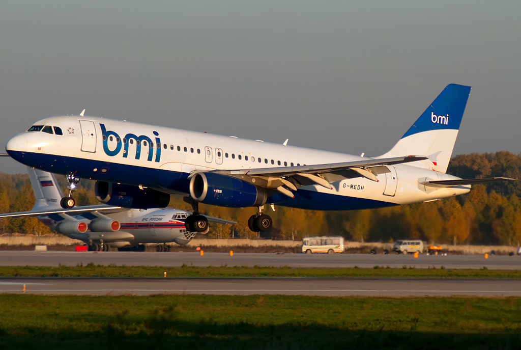 BMI Airbus A320-232 at Moscow Domodedovo Airport.